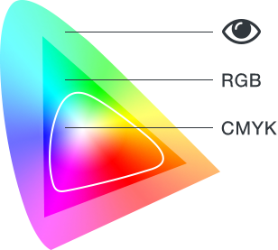 Color Gamut Representation